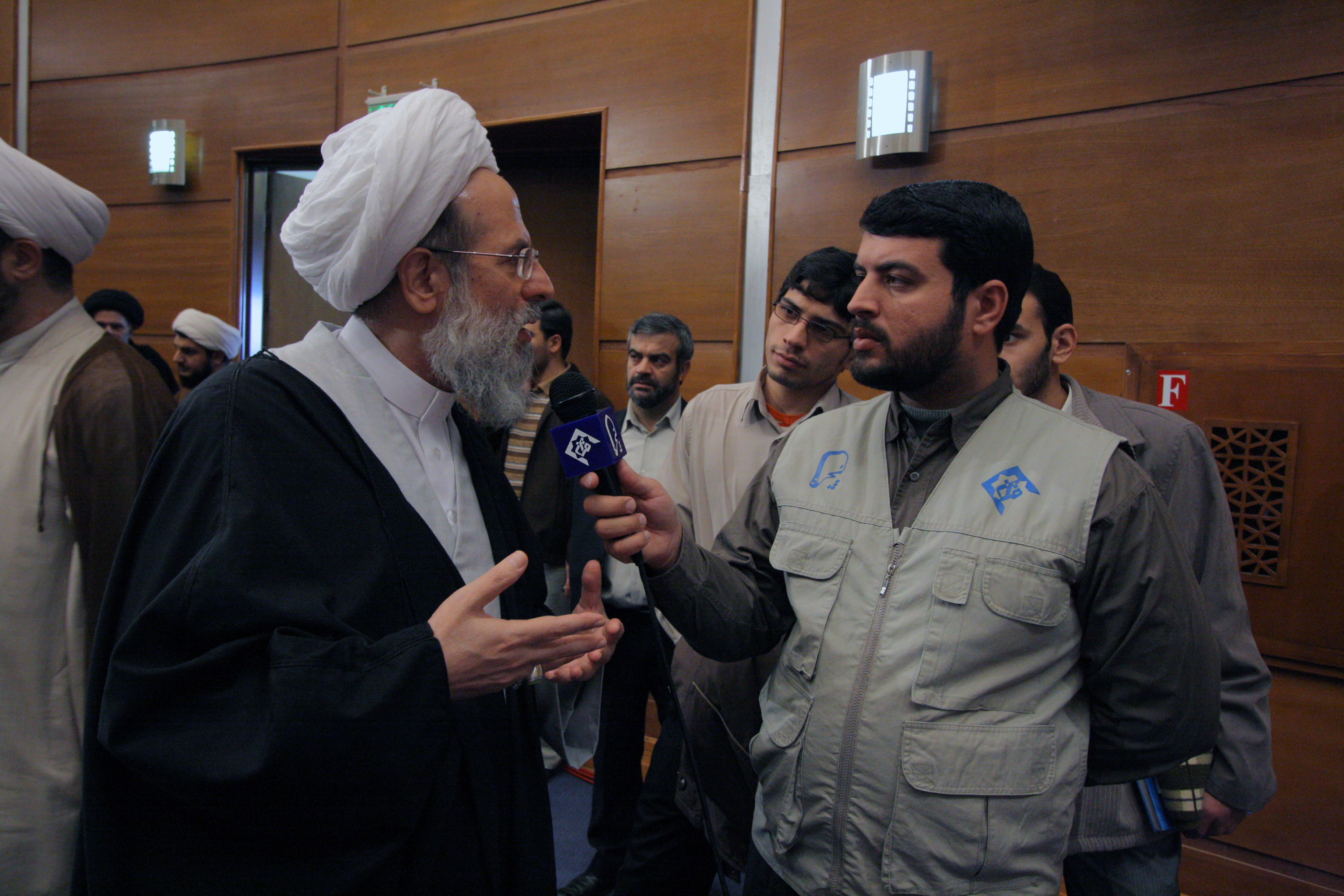 Mohammad Reyshahri also known as Mohammad Mohammadi-Nik, (born 29 October 1946), best known as Reyshahri, is an Iranian politician and cleric who was the first Minister of Intelligence, served from 1984 to 1989 in cabinet of Prime Minister Mir-Hossein Mousavi.